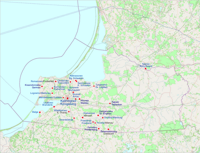 Distribution of Brick Gothic buildings in Kaliningrad Oblast